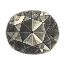 Koh-i-Noor after 1852